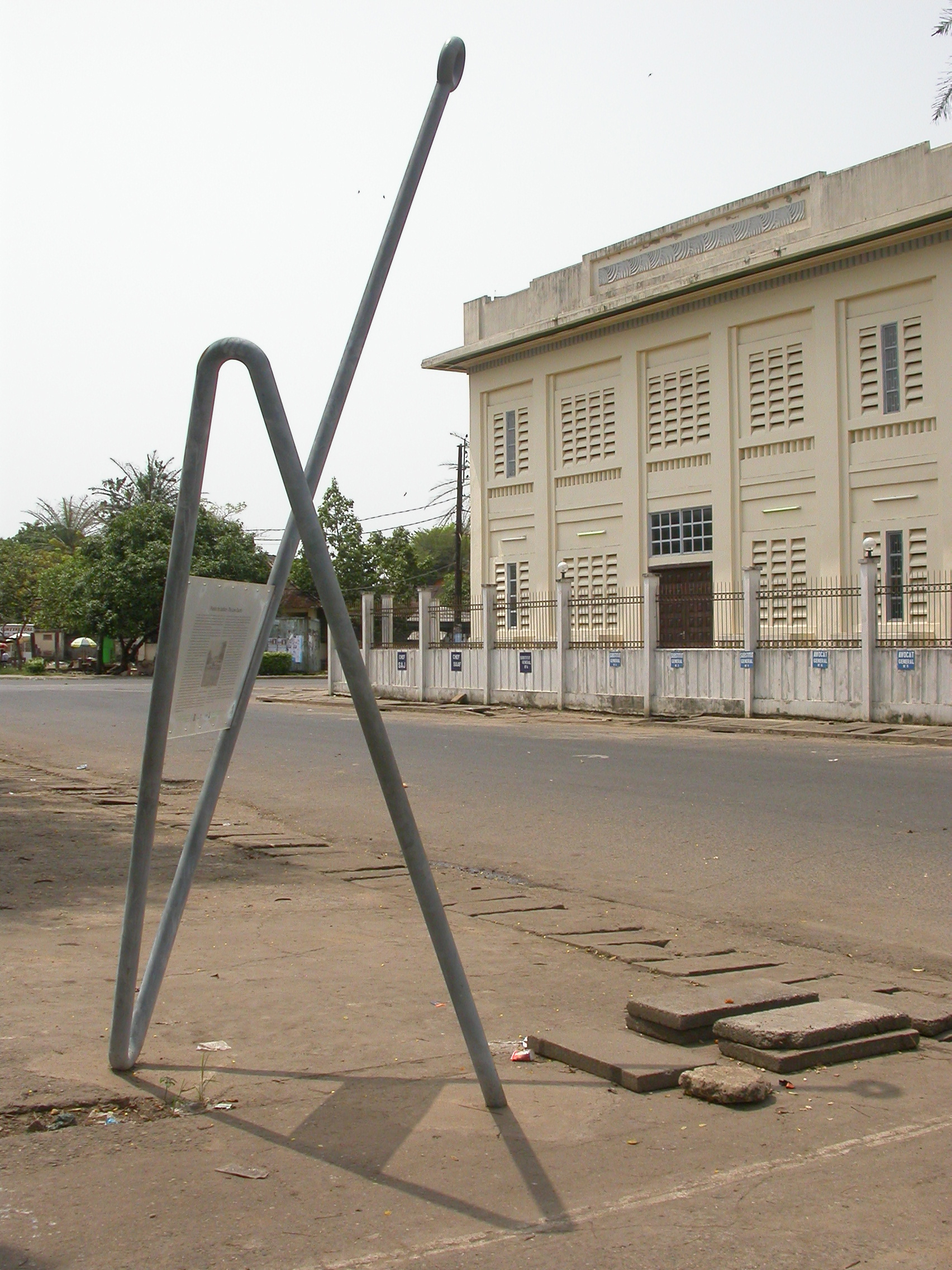 Sandrine Dole, Douala Ville d'art et d'Histoire (Douala city of art and history), Douala, 2006-2007, commissioned by doual'art. Photo by Sandrine Dole.